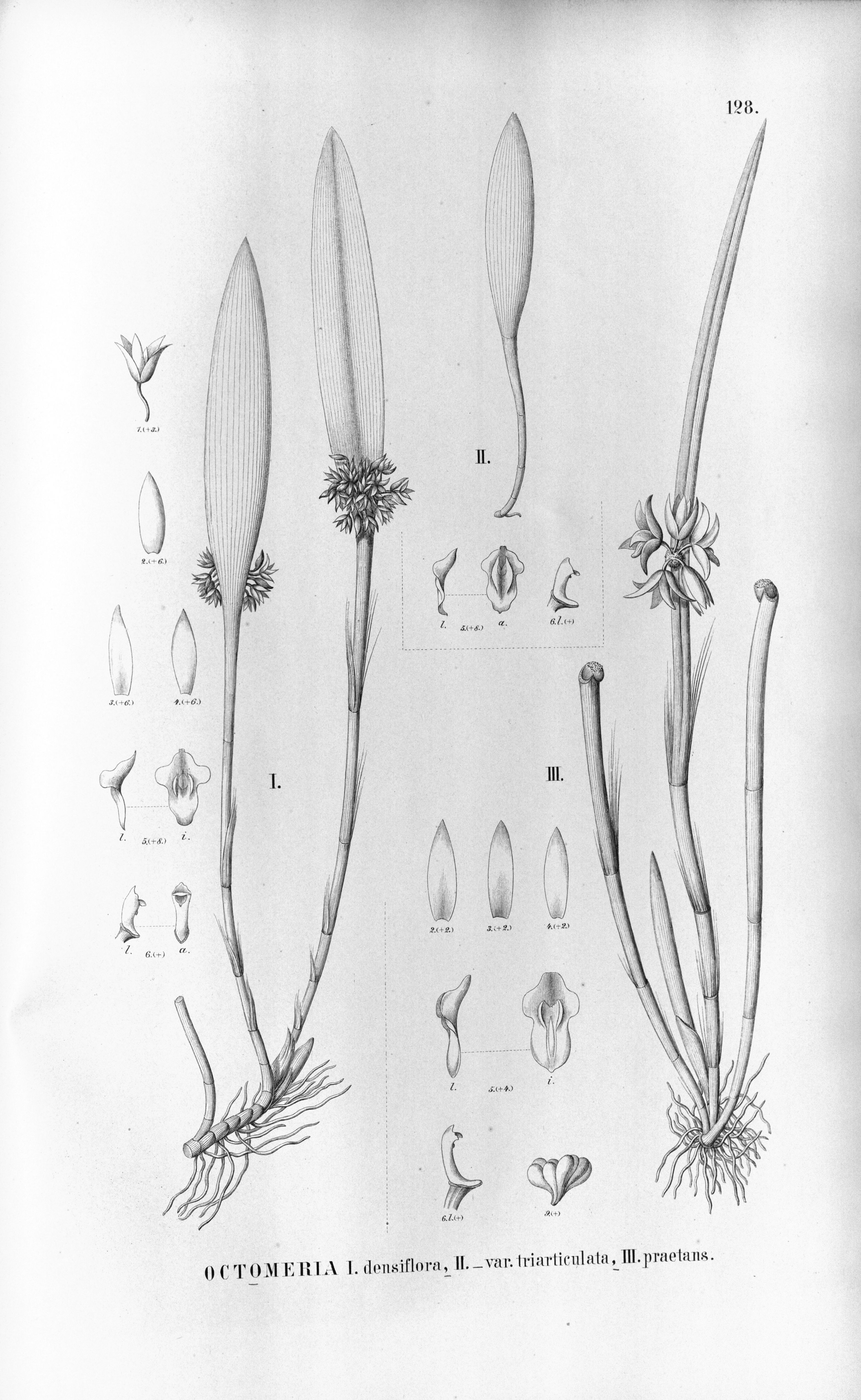 Illustration of I. Octomeria crassifolia (as syn. O. densiflora) II. Octomeria crassifolia (as syn. Octomeria densiflora var. triarticulata) III. Octomeria praestans (as Octomeria praetans, typograph. error?)